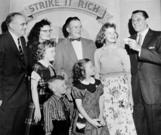 Publicity photo of Warren Hull, contestants the Haynes family of Pittsburgh, and Frank G. Atkinson, president of Joseph Dixon Crucible Company on Strike It Rich.